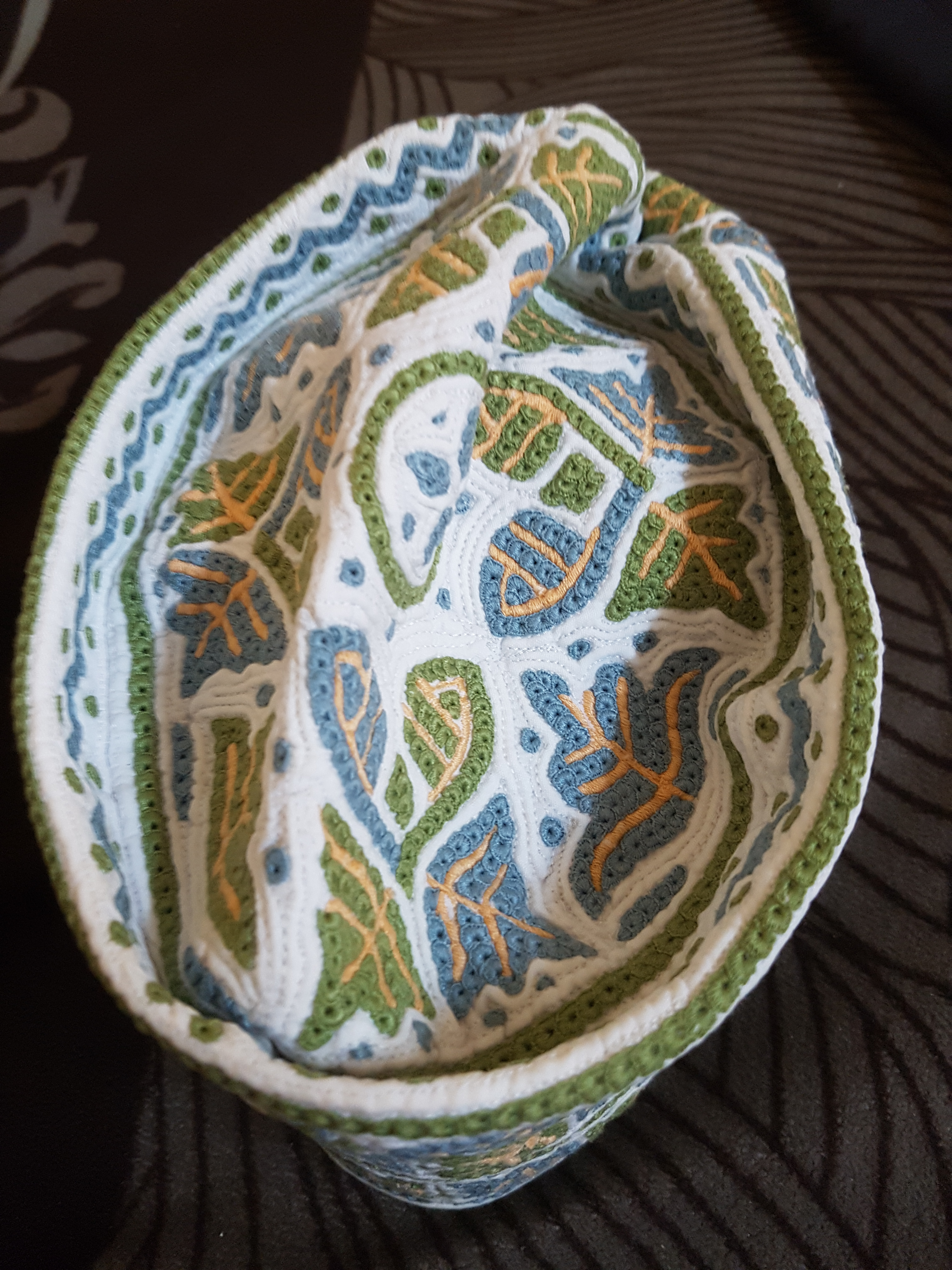 كمة صناعة يد